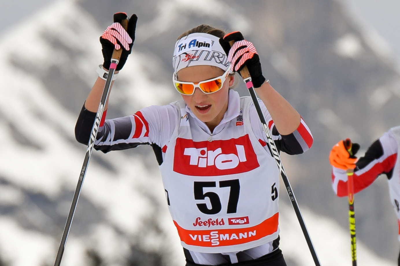 Seefeld-Triple 2018, third day January 28th. Picture shows SEEBACHER Anna Roswitha (AUT)